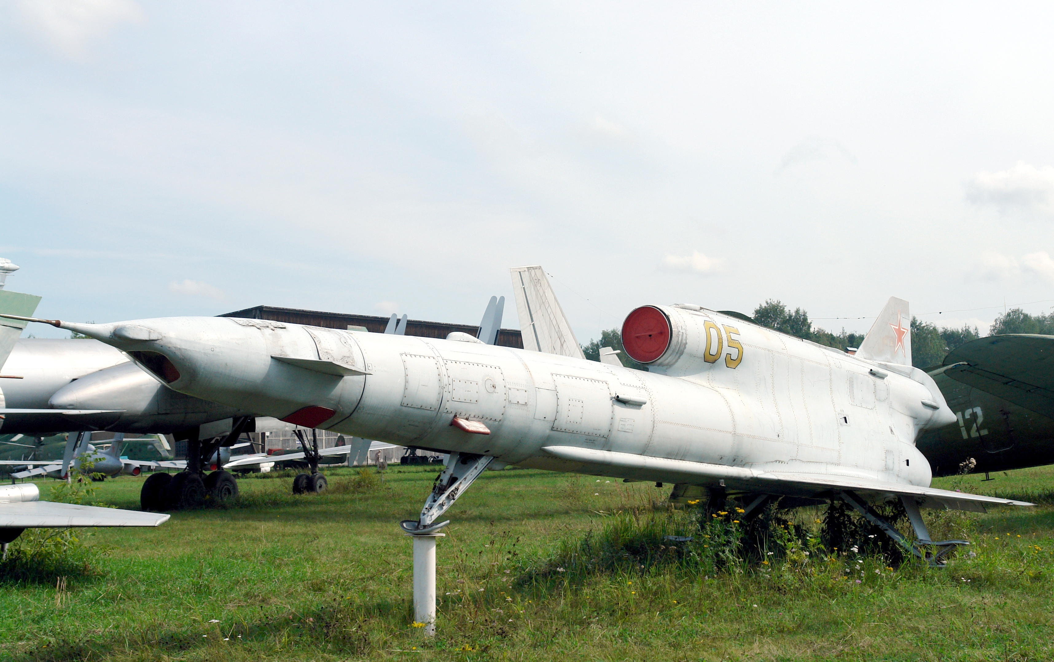 M-141 Tu-141 "Strizh" Cruise Missile at Monino Central Air Force Museum (Moscow)